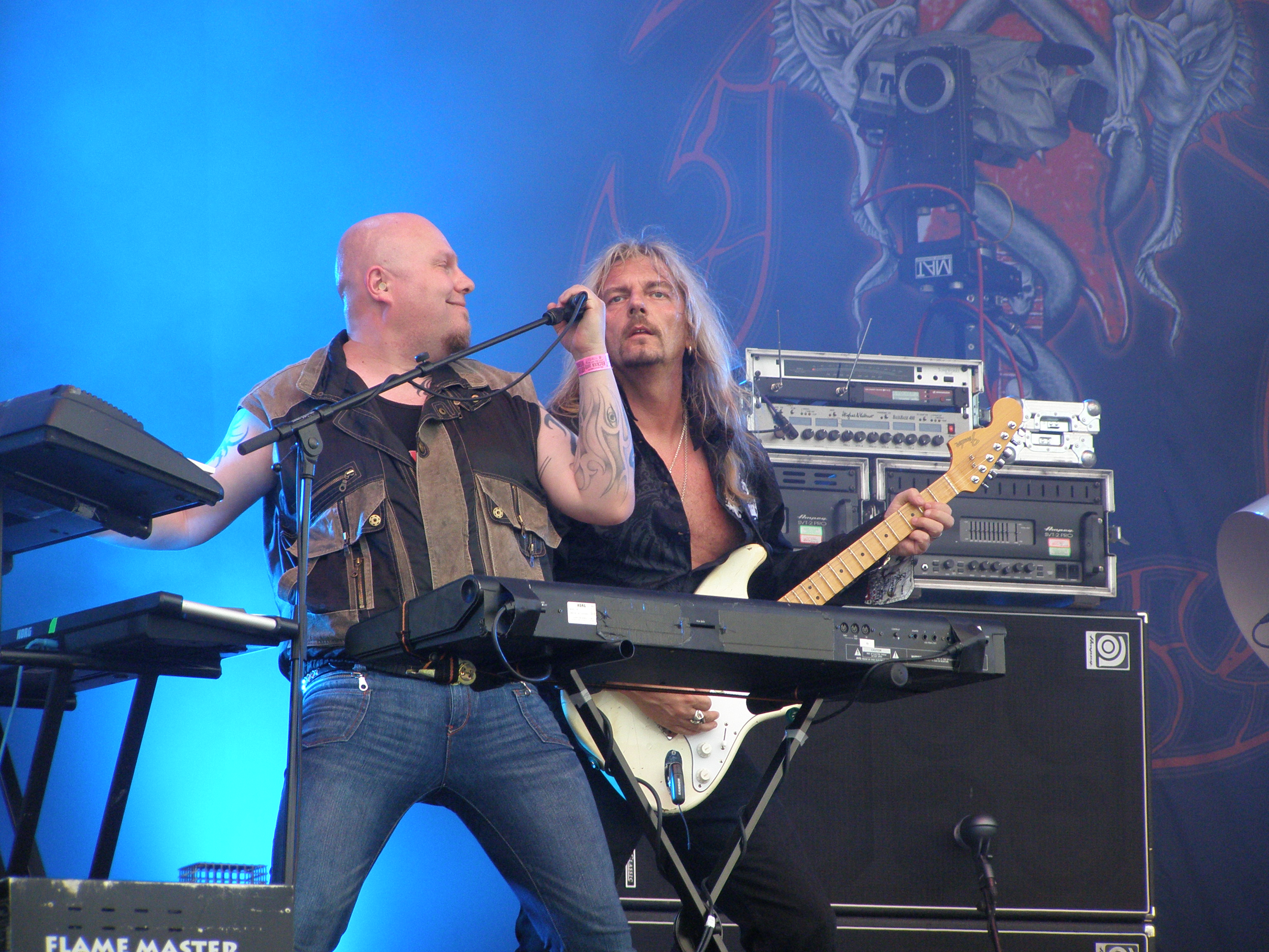 ARP live in 2009